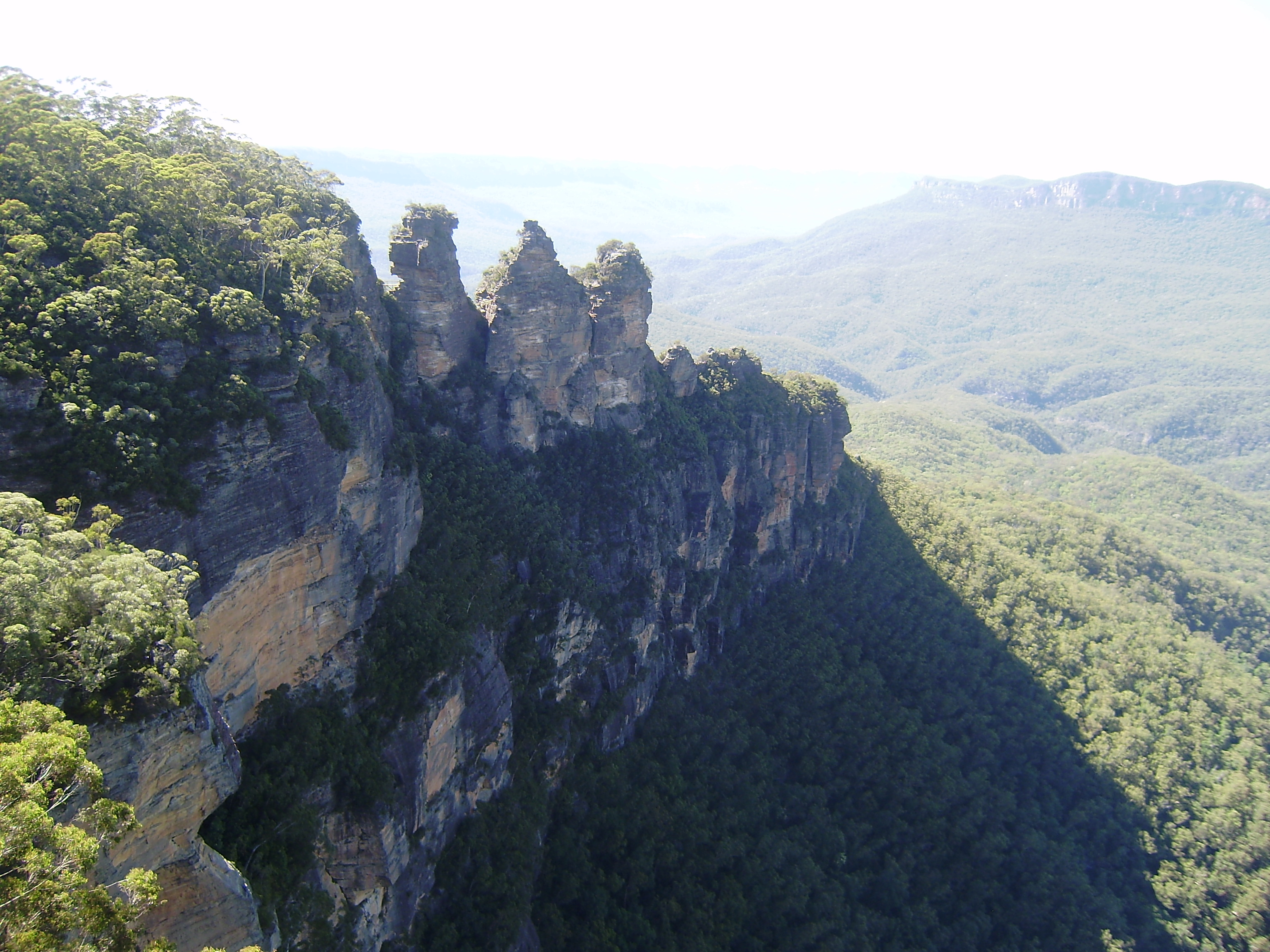 Echo Point/Three Sisters